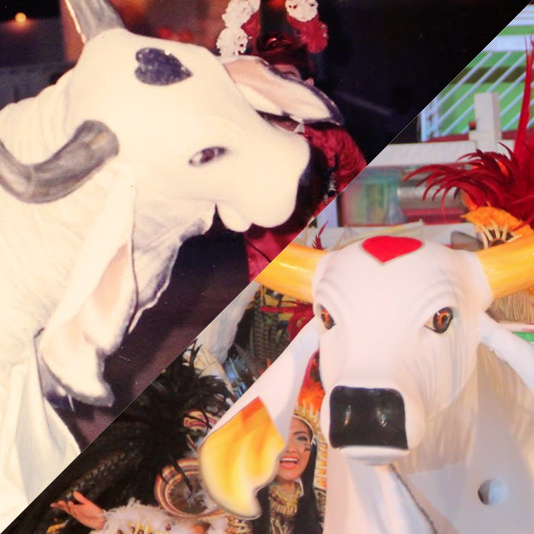 Coração